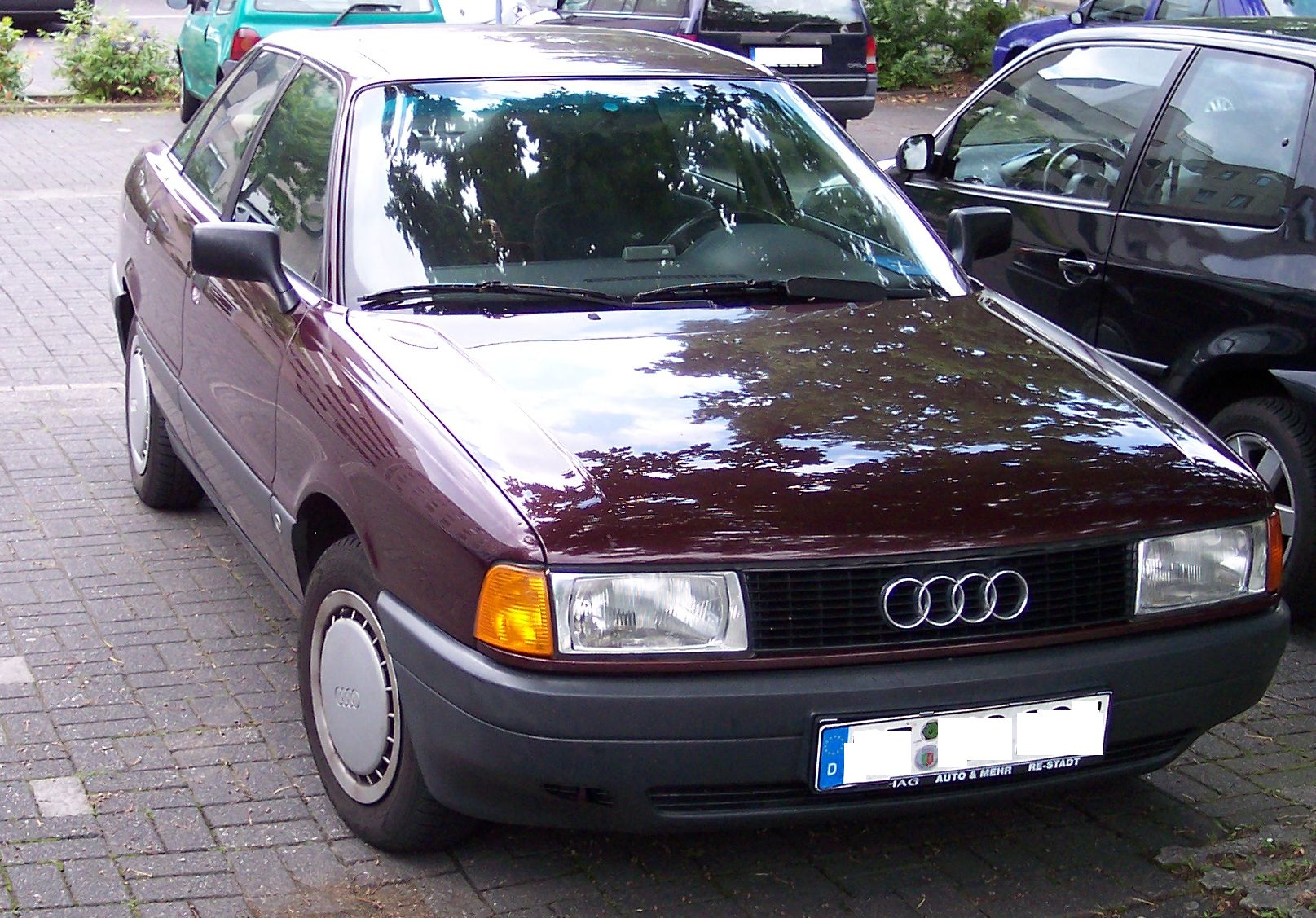 Audi 80